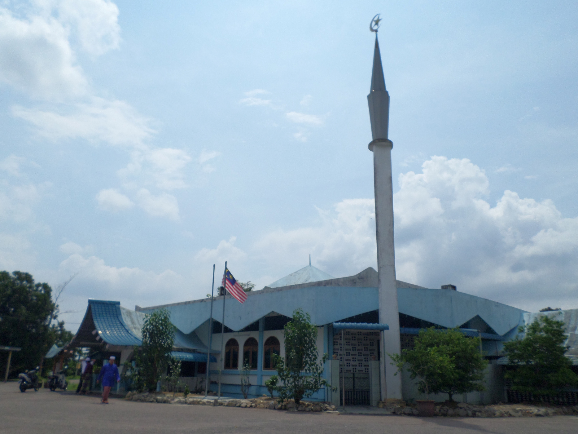 Al-Falah Jamek Mosque, Simpang Renggam, Kluang, Johor, Malaysia